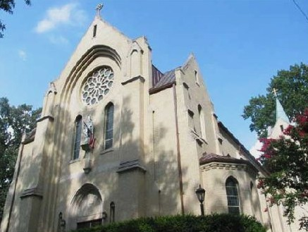 Cathedral of Saint Patrick in Charlotte